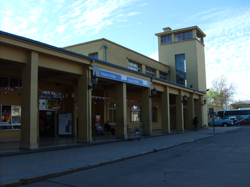 Chillán station raillway